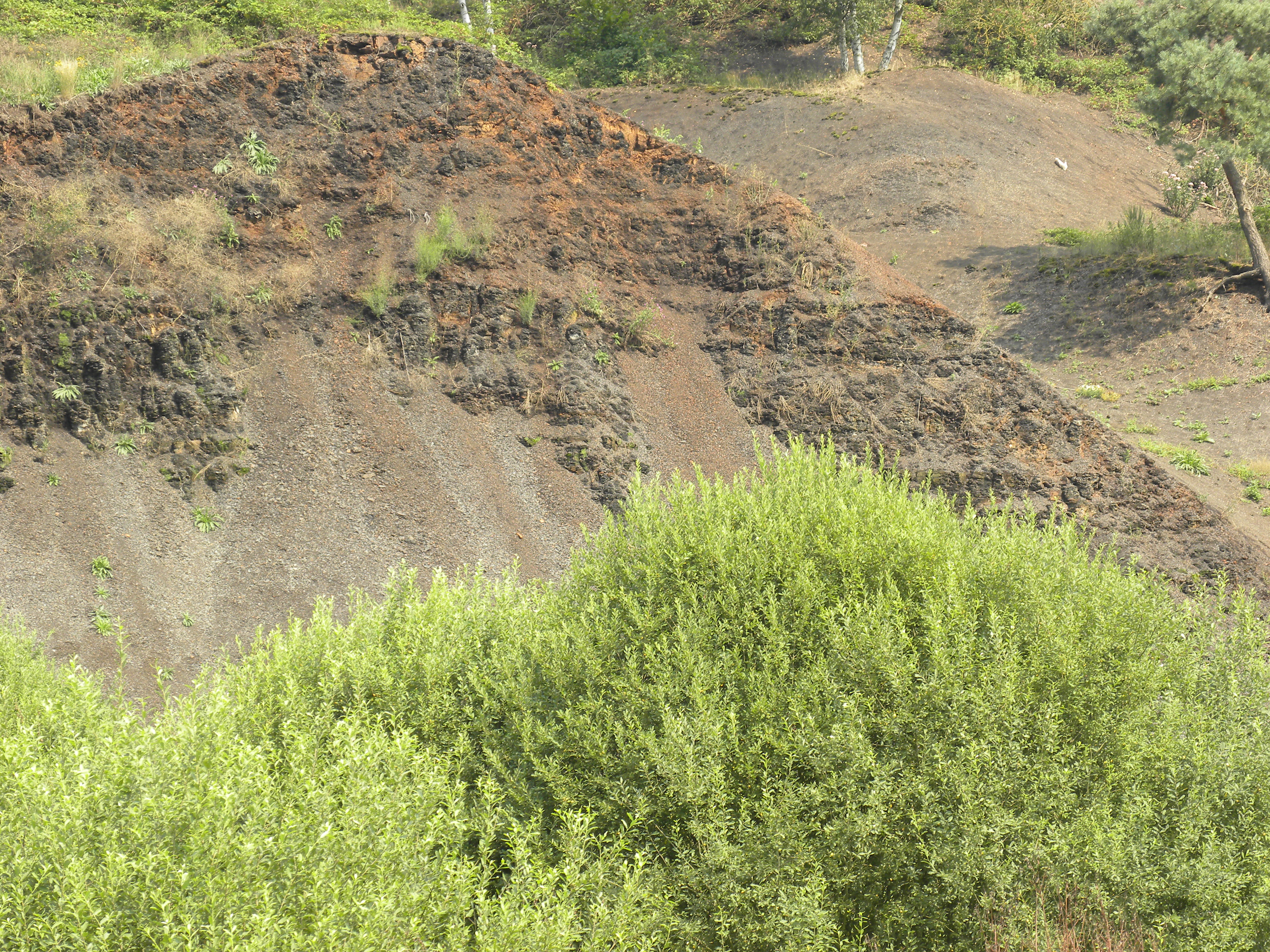 Messel oil shale (Eocene) outcropping in the Messel Pit, Germany.